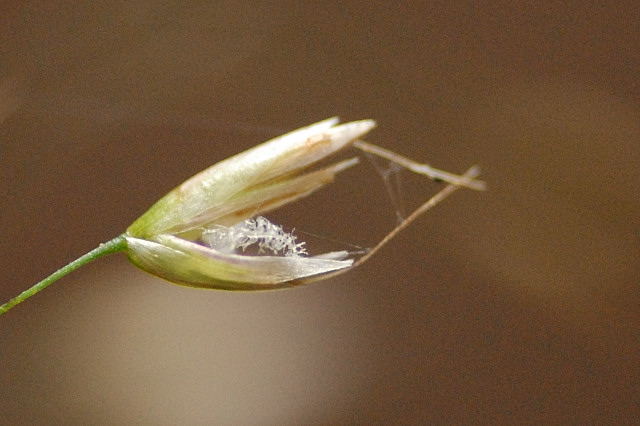 Deschampsia flexuosa from Commanster, Belgian High Ardennes .